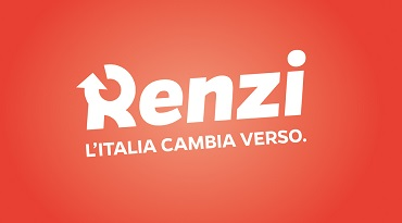 Logo of Renzi l'Italia Cambia Verso